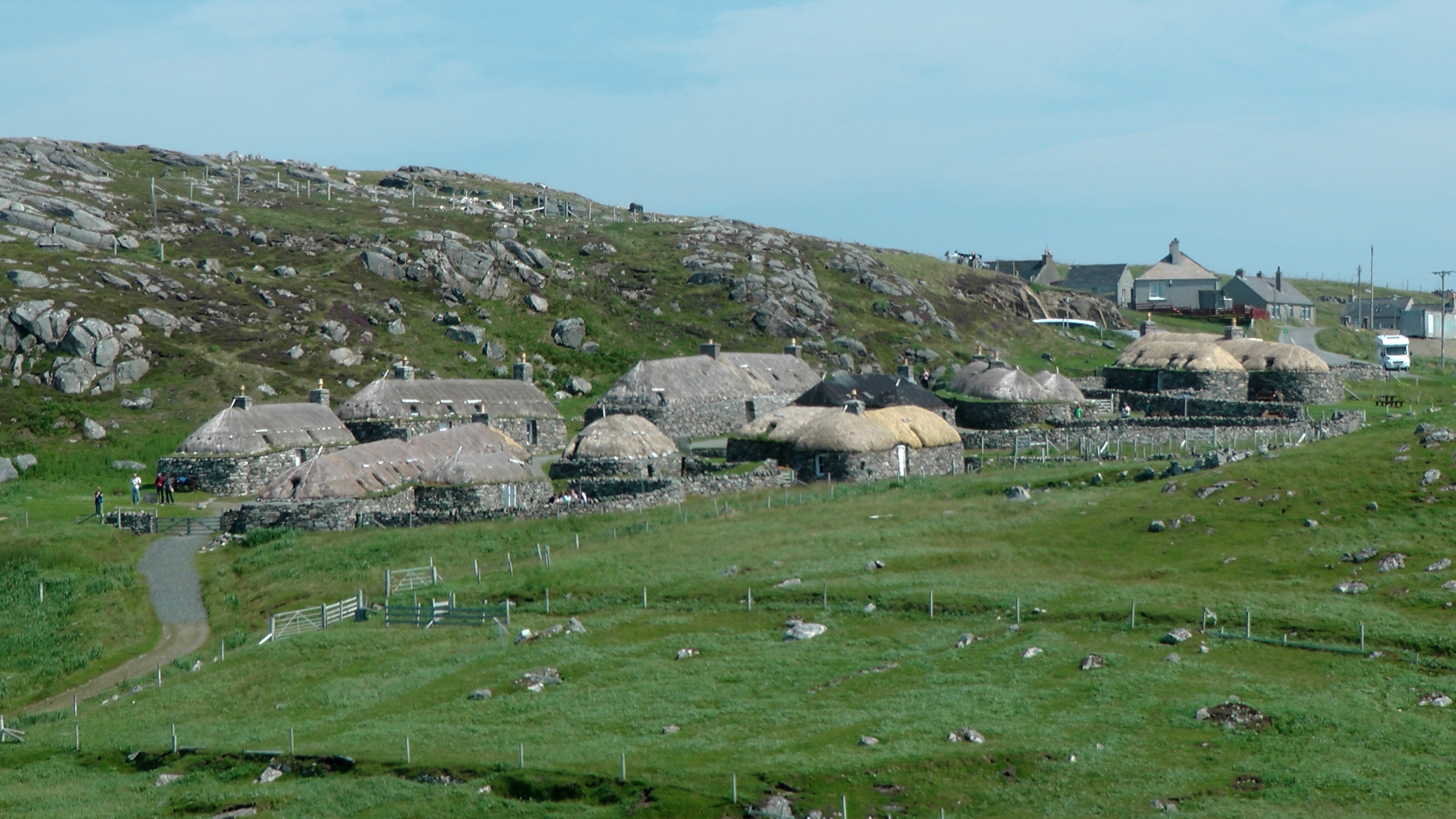 The Gearrannan Blackhouses - whole village